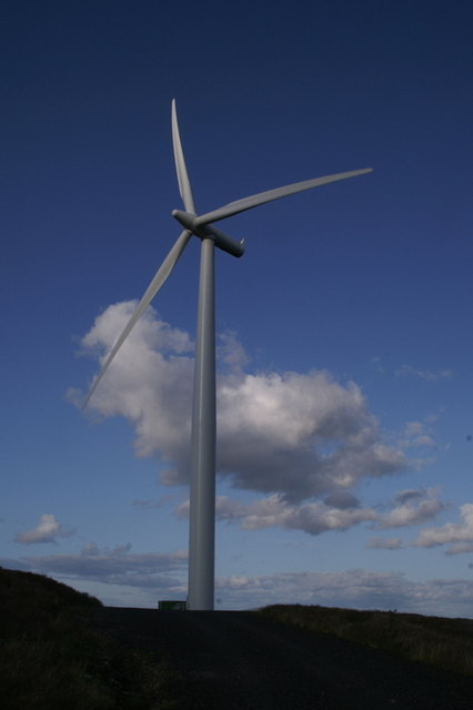 Aerogenerator No 5, Drumderg On the east side of the hill.